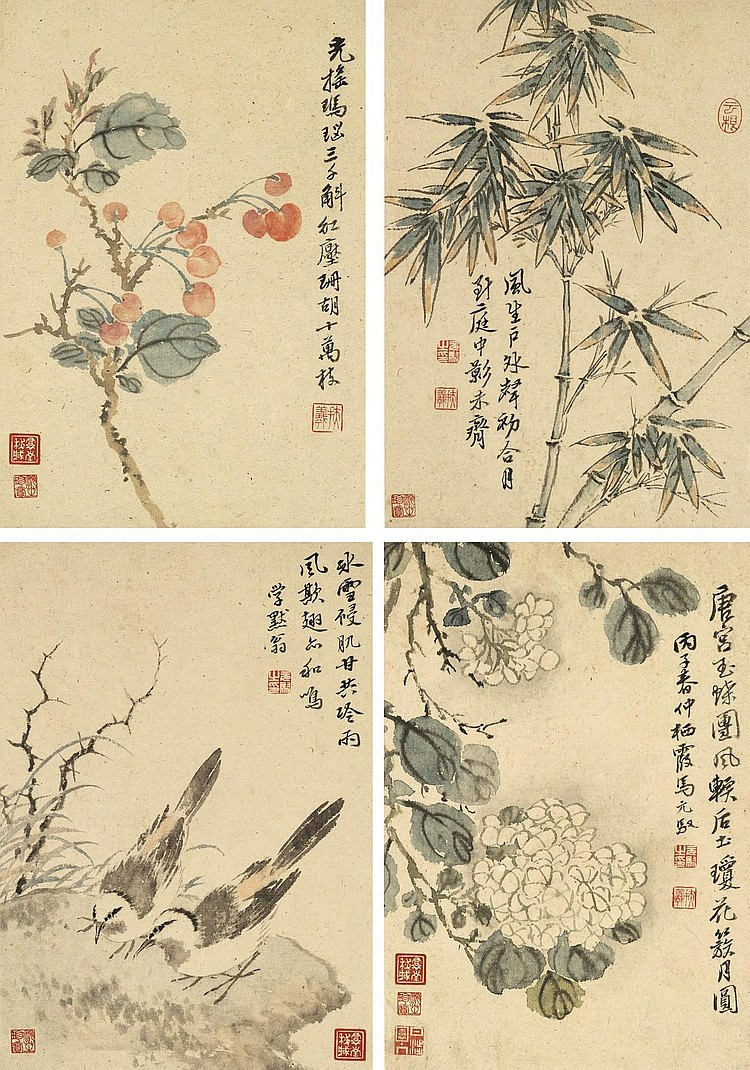 Birds and Flowers